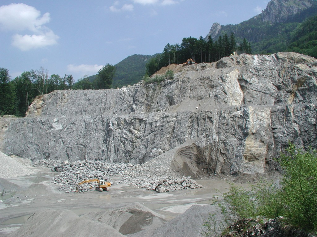 Limestone quarry.